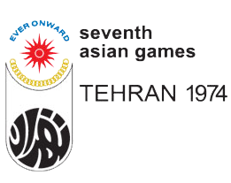 Logo of the seventh Asian Games, held in Tehran in 1974.